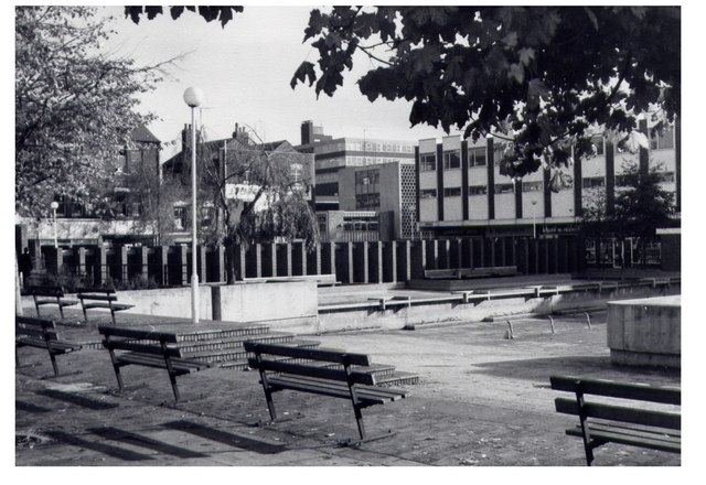 King's Square, Gloucester King's Square was redeveloped in the 1960s, it used to be a car park. Here it is photographed in 1976.